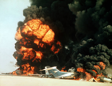 Dawson's field aircrafts blown up